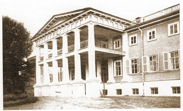 Veliky Burluk Manor in the Governorate of Kharkov